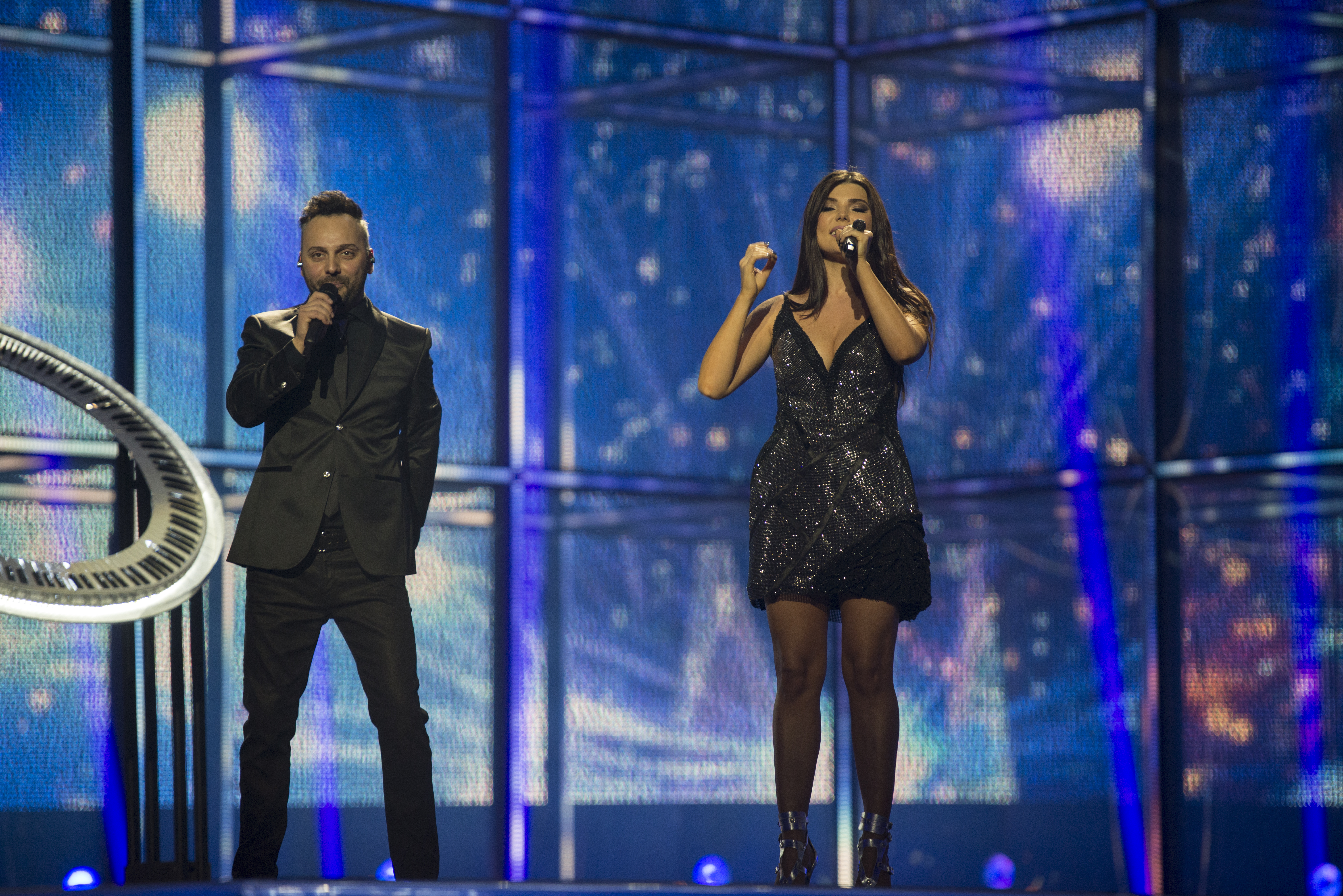 Paula Seling and Ovidiu Cernăuțeanu representing Romania with the song "Miracle" during the first dress rehearsal of the second semi final of the Eurovision Song Contest 2014 Copenhagen. (Help translate this text)